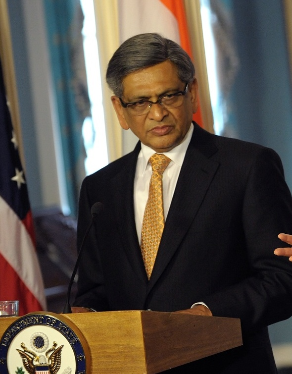 U.S. Secretary of State Hillary Rodham Clinton responds to questions at a joint press availability with Indian Minister of External Affairs S.M. Krishna at the U.S. Department of State in Washington, D.C., on June 3, 2010. [State Department Photo/Public Domain]